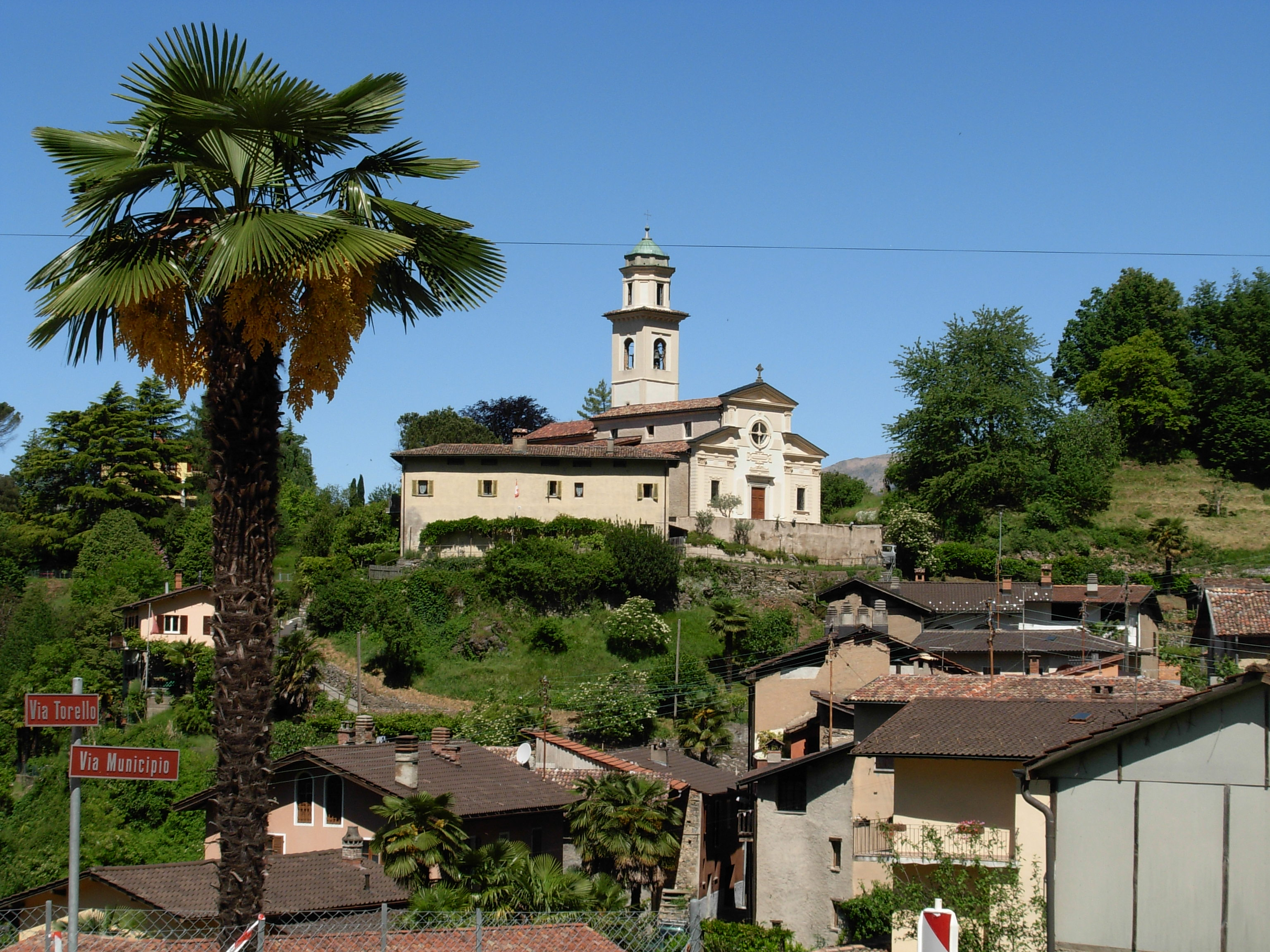 The church San Siro in Carabbia (Canton of Ticino / Switzerland)